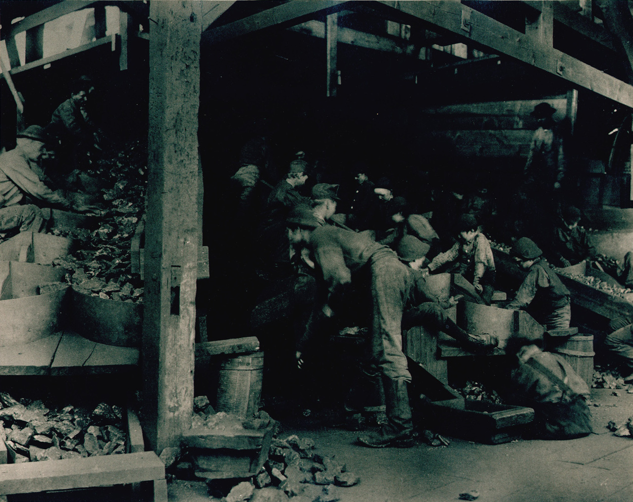 Boys picking slate from coal. packer #5 breaker